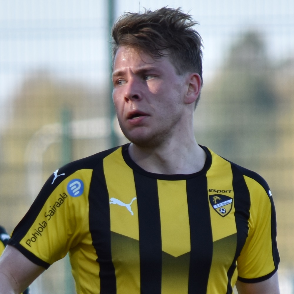 Association football player Kasperi Liikonen (FC Honka)